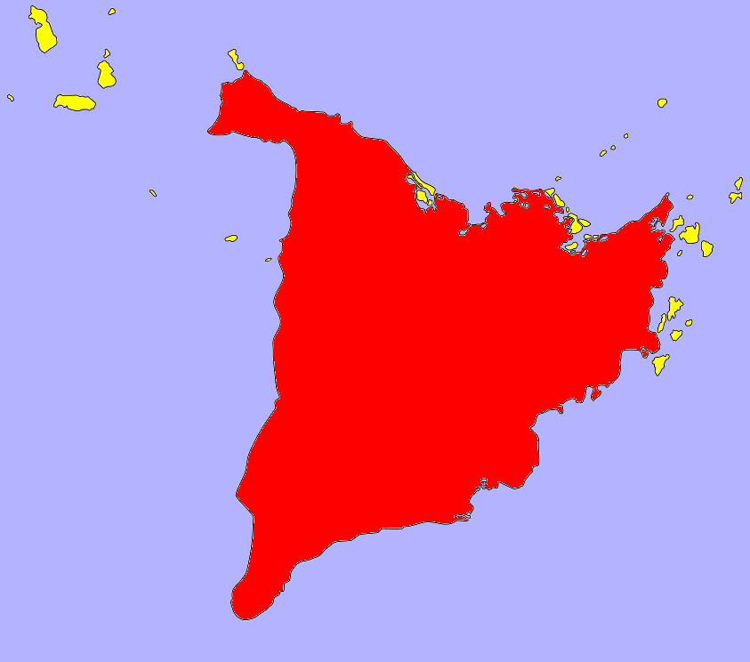 Highlighted locator map of Panay island (in red), and its associated islands (in yellow).